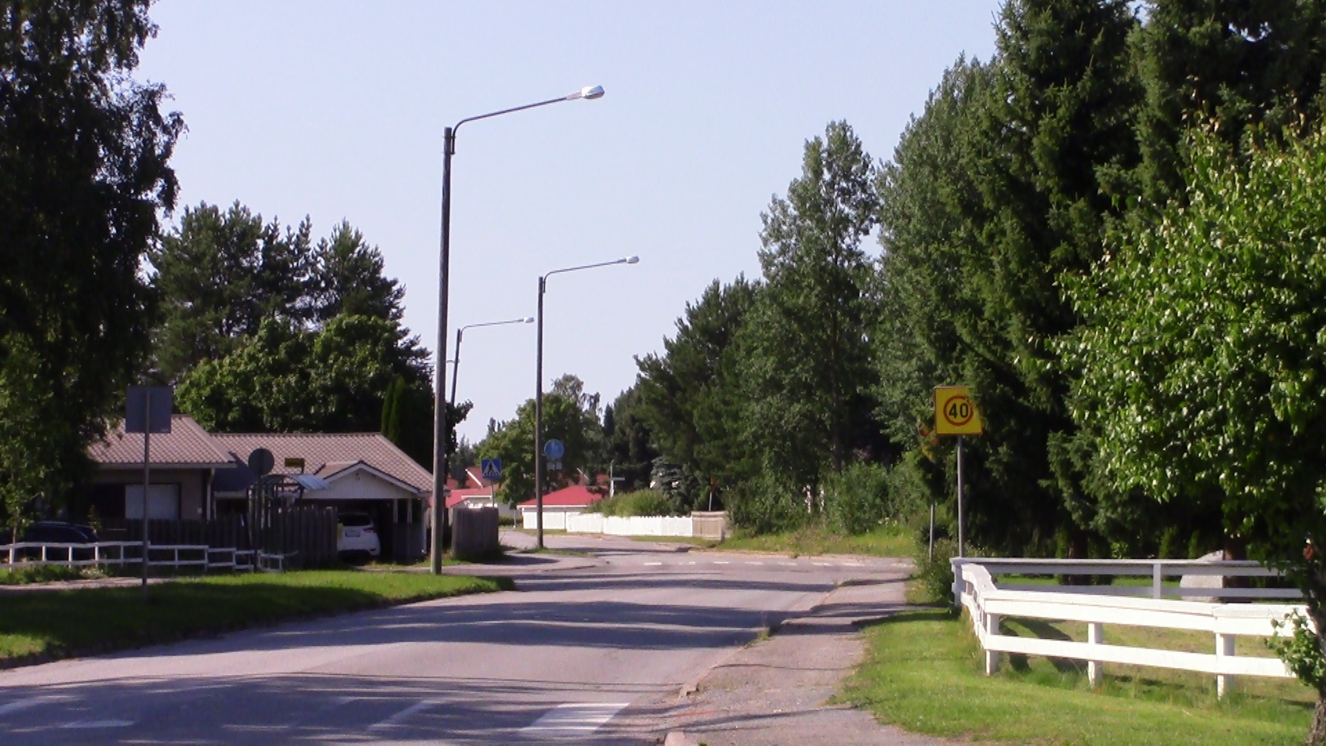 Latokartanontie road at Väinölä suburb in Pori, Finland. The picture's been taken from Lemminkäisentie road crossing.